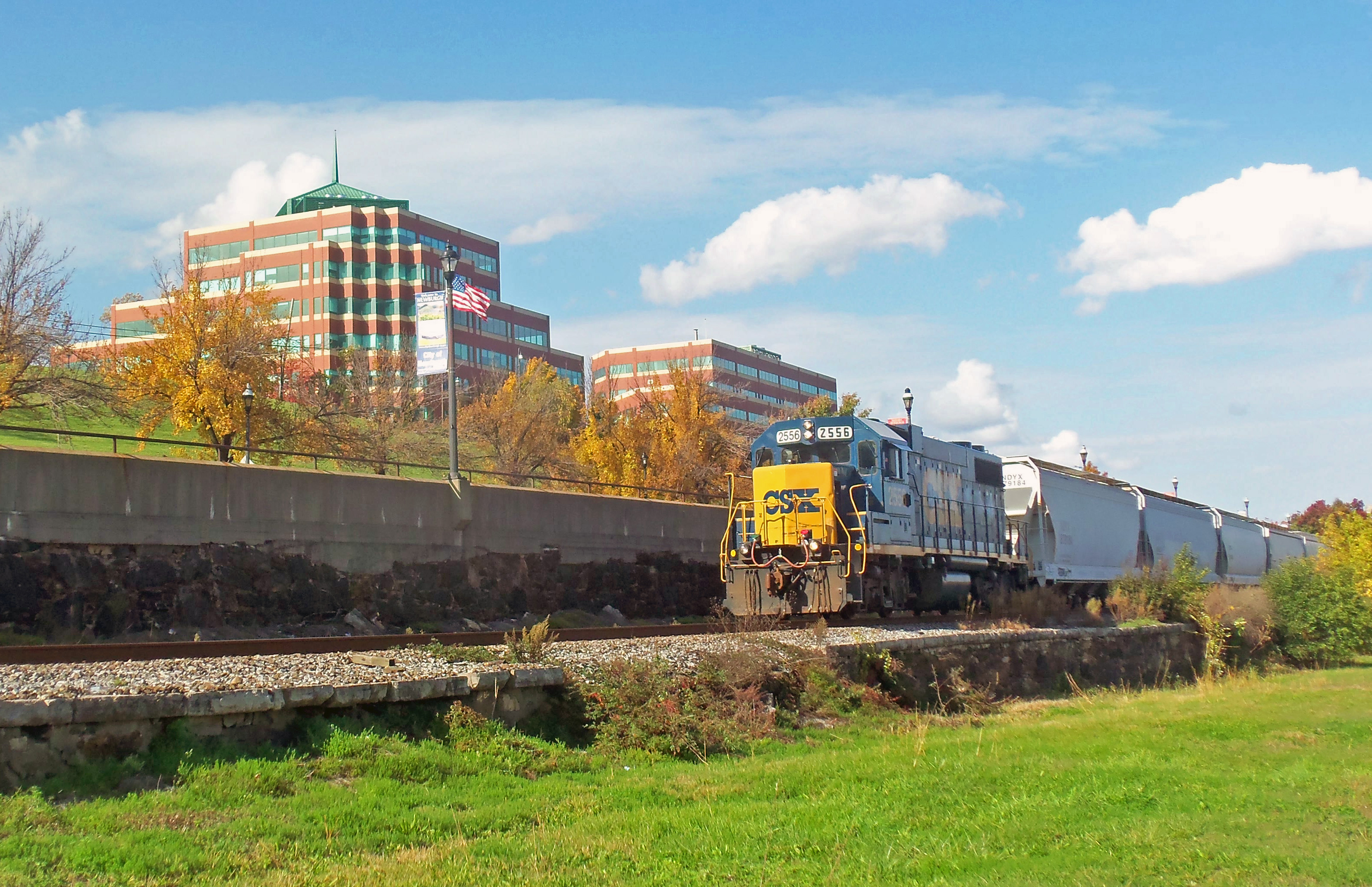 CSX freight heading southbound on River Subdivision past downtown Newburgh, NY, USA